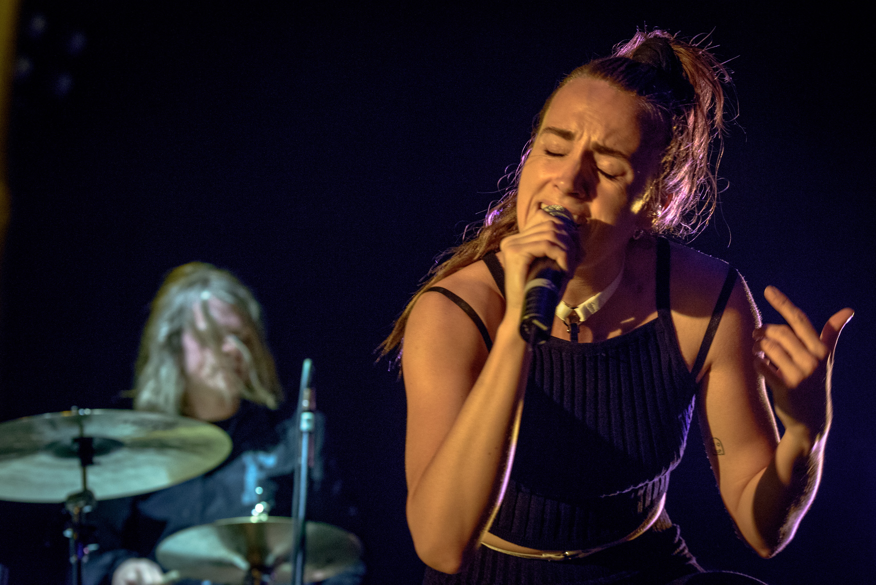 MØ Live @ Utopia Island 2015